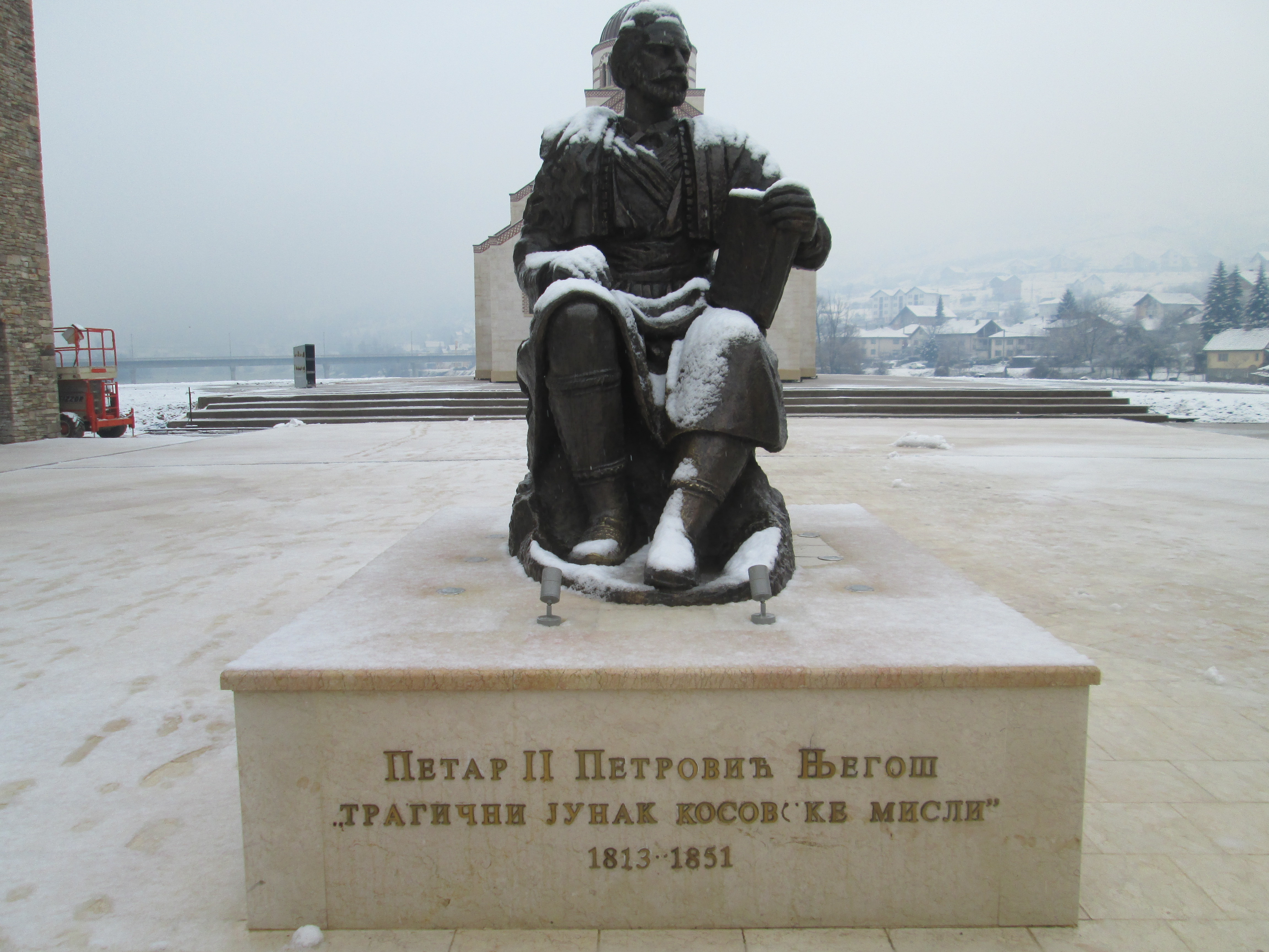 Editing Wikipedia Workshop in Visegrad - Photo tour around Visegrad, Petar II Petrovic Njegos Monument in AndricgradСрпски (ћирилица): Радионица уређивања Википедије у Вишеграду - Фото тура по Вишеграду, споменик Петру II Петровићу Његошу у Андрићграду